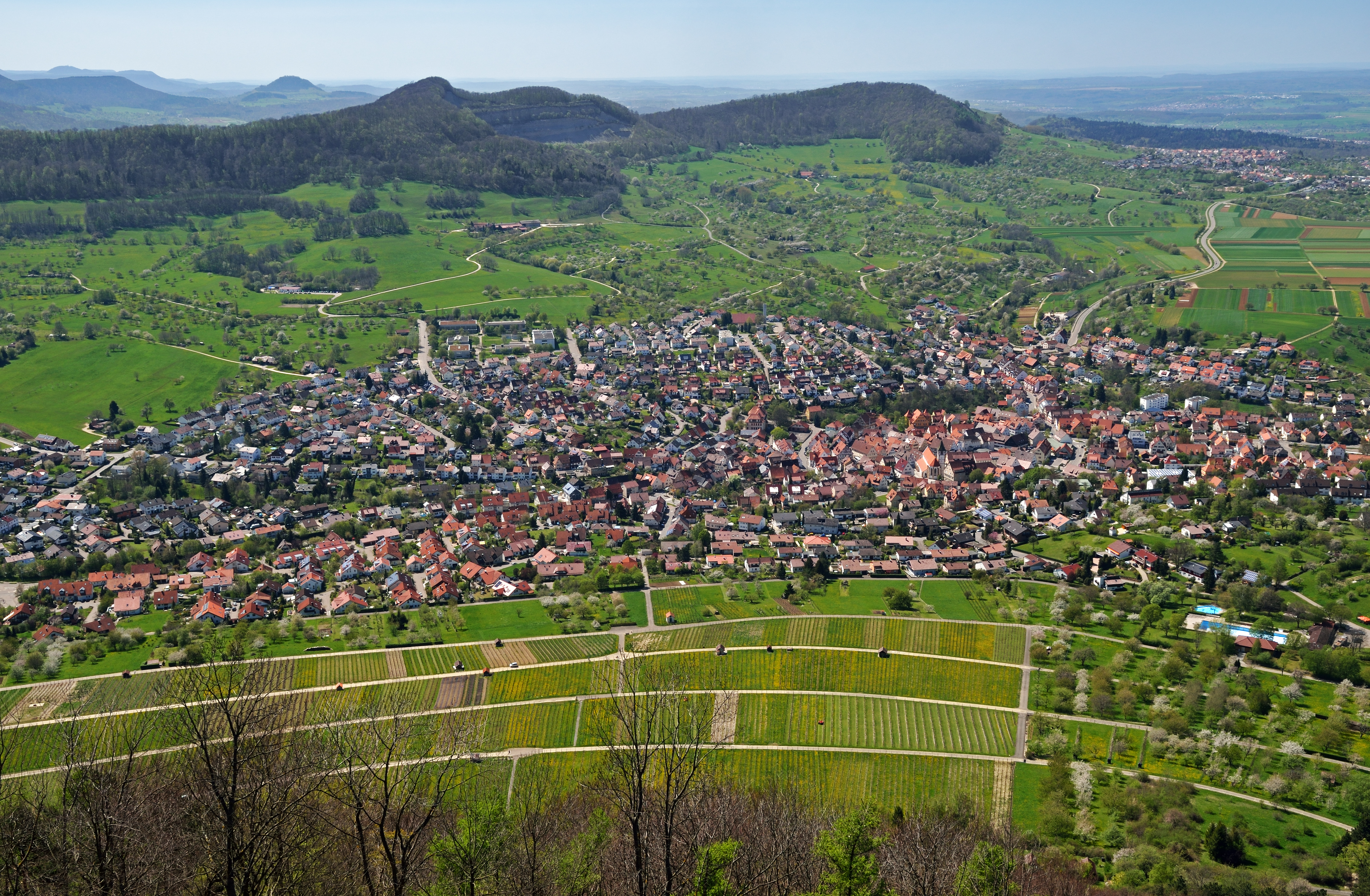 Neuffen as seen from the Hohenneuffen Castle.